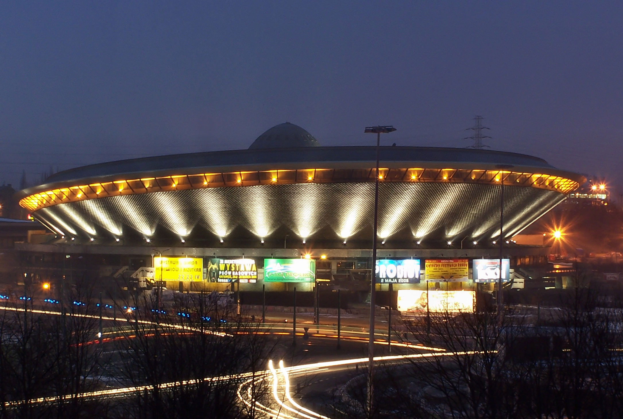 The Spodek multipurpose sports arena at night in Katowice, Poland.